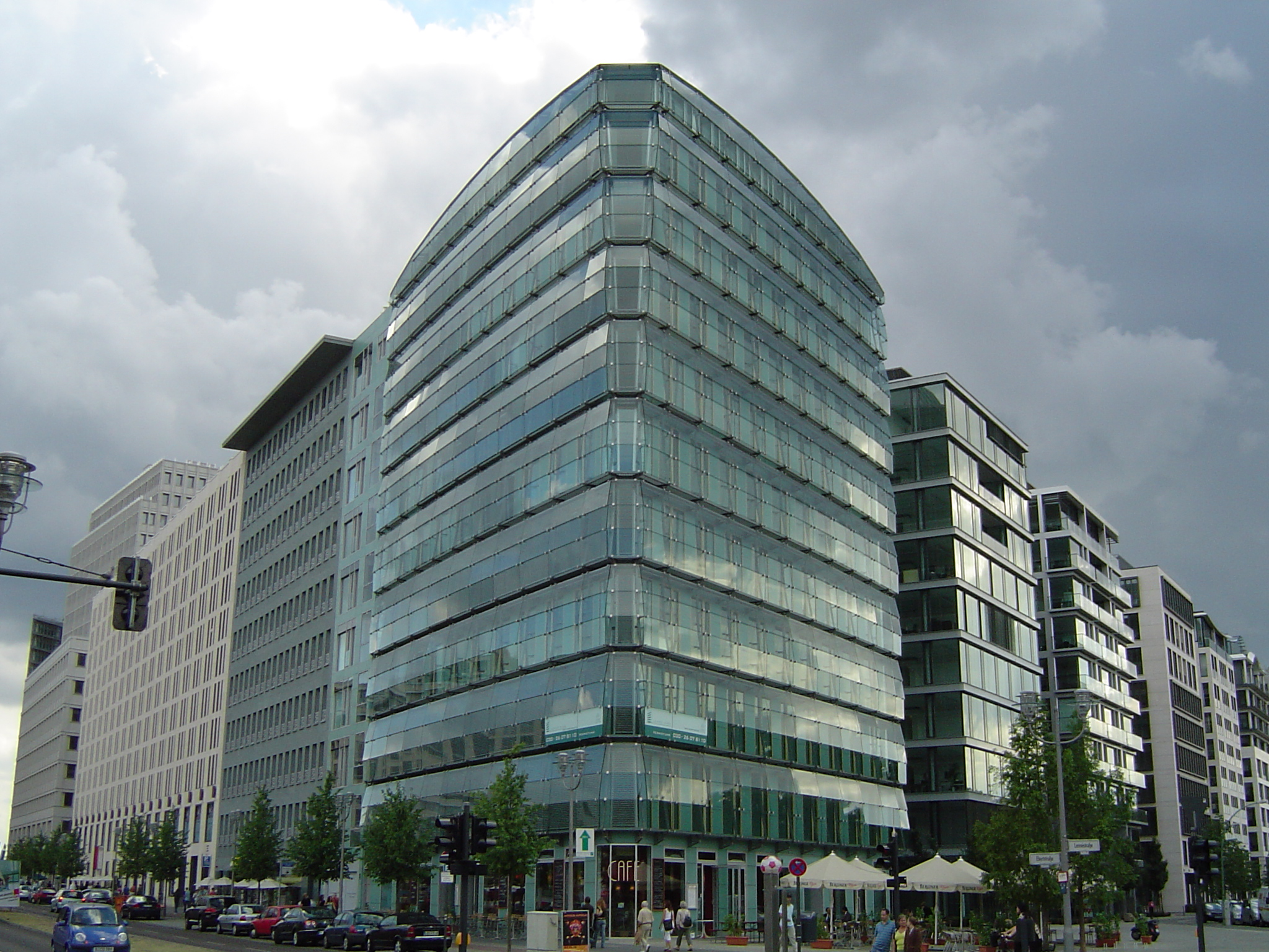 Postmodern architecture at the corner of the Lenné triangle in Berlin